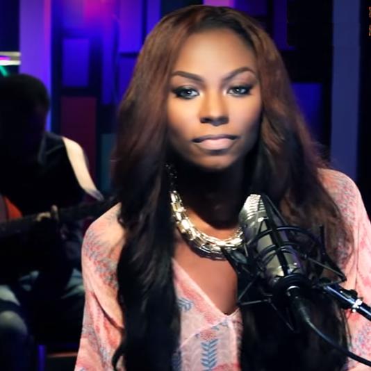 Eniola Akinbo (born December 9, 1985, in Lagos[1]), professionally known by her stage name Niyola, on The Jice on Ndani.tv